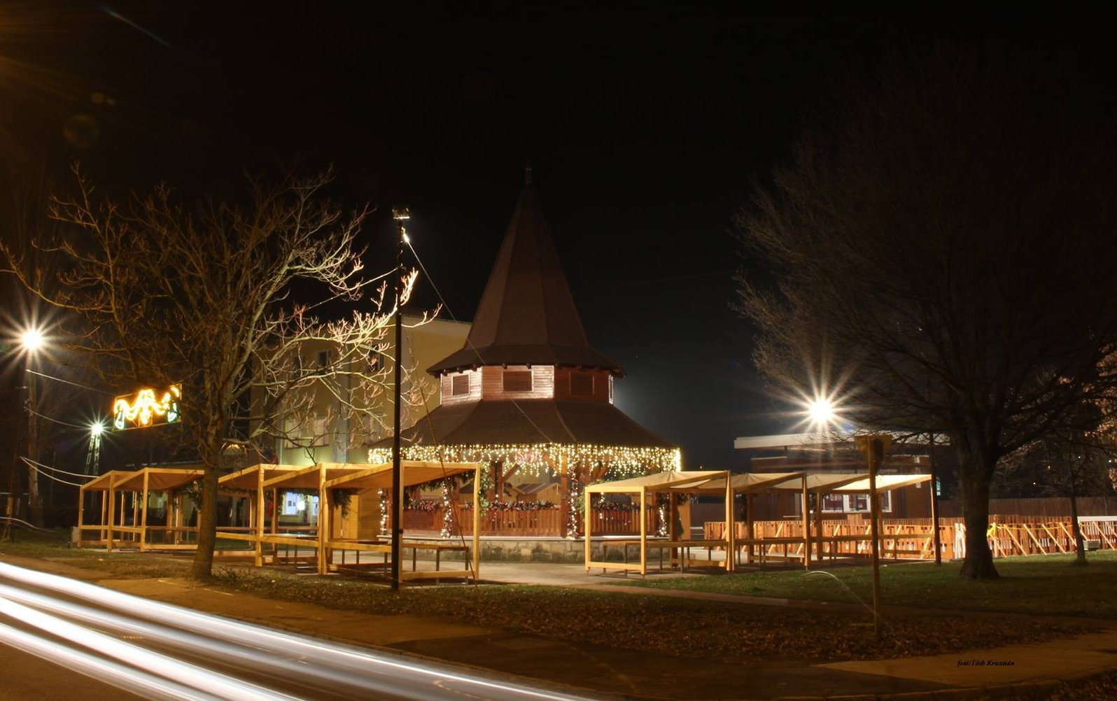 Dorogi Advent and Christmas market is traditional, famous and very popular in the town. The location is usually the downtown but the organizing made it in the area of stadium in 2016. The picture made few days earlier before the market opened.